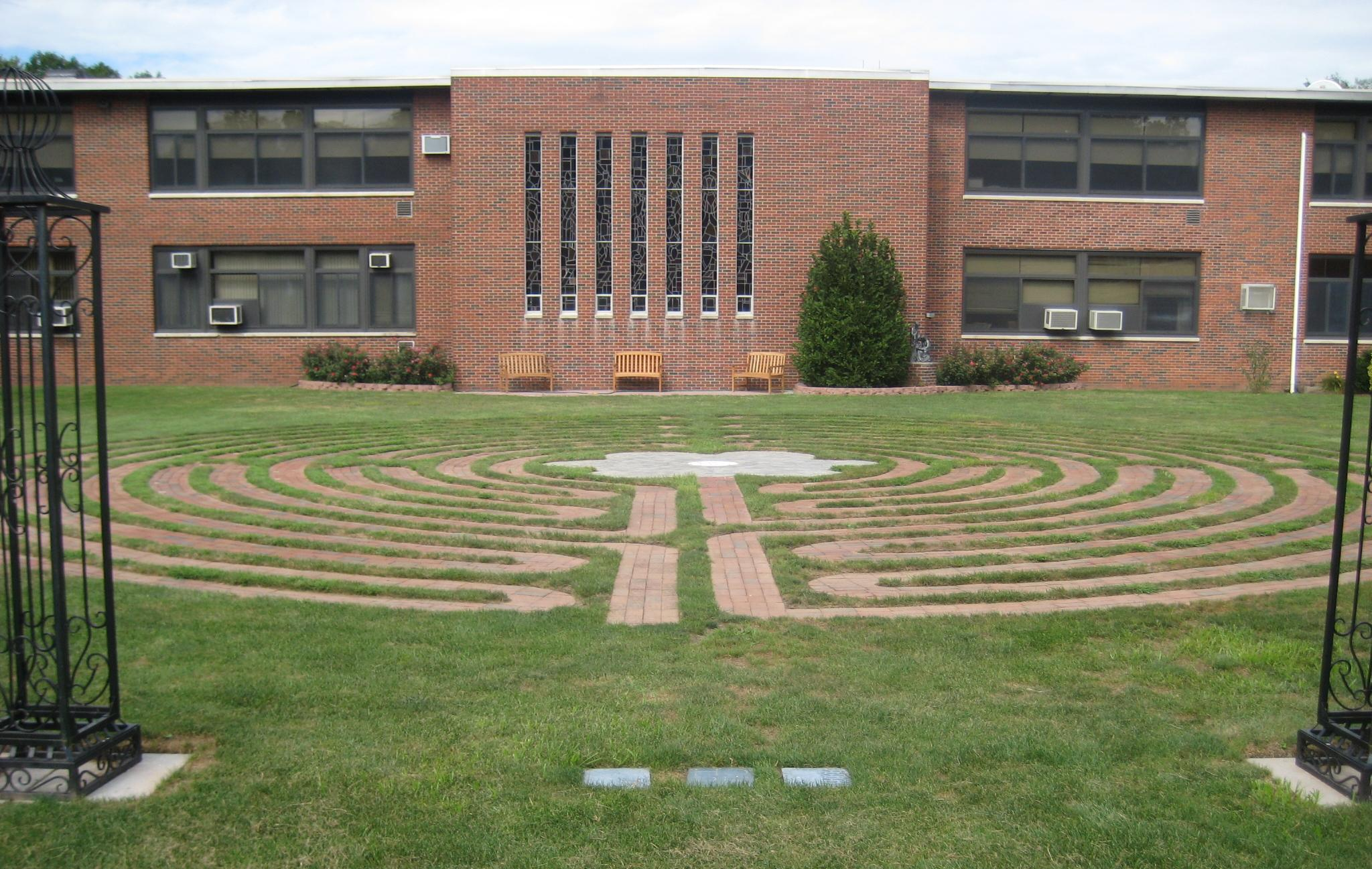 The Labrynth in Roselle Catholic High School's courtyard located in Roselle, New Jersey.